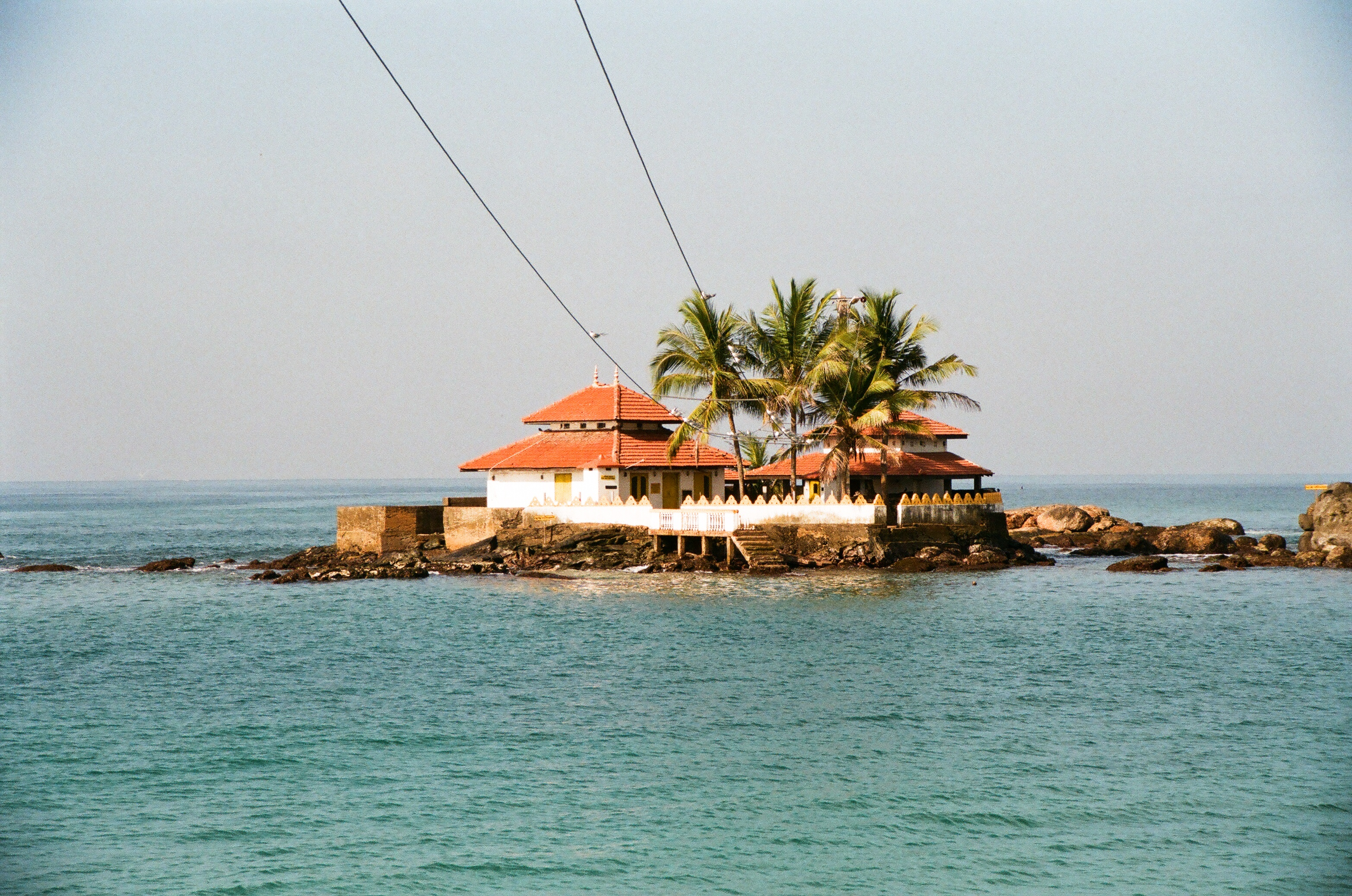 Photograph of Seenigama Muhudu Viharaya.